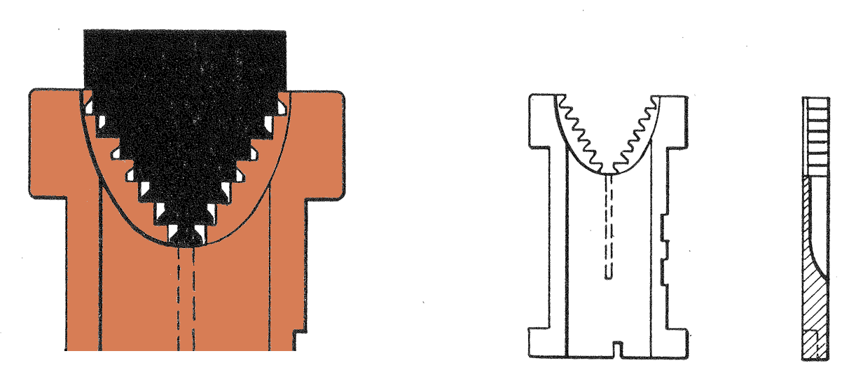 Linotype matrix teeth and distribution colored